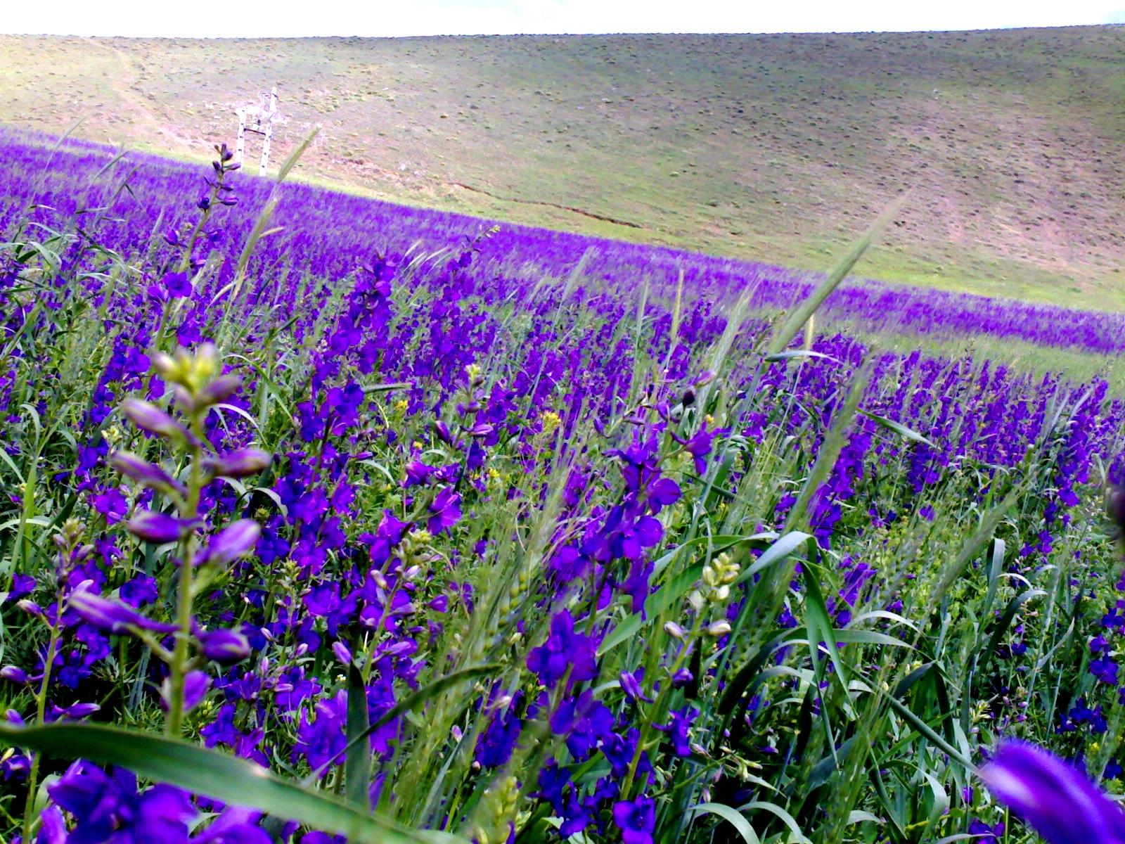 Khankandi-6